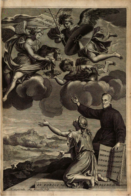 Illustration at the beginning of the book 'Il combattimento spirituale' (The Spiritual Combat) (1660) by Lorenzo Scopoli.